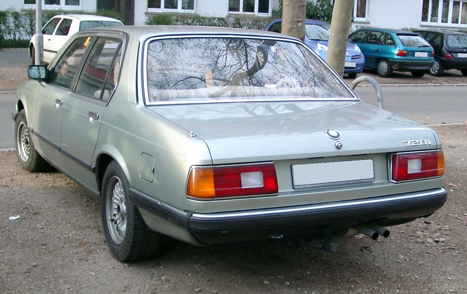 BMW 728i (E23)